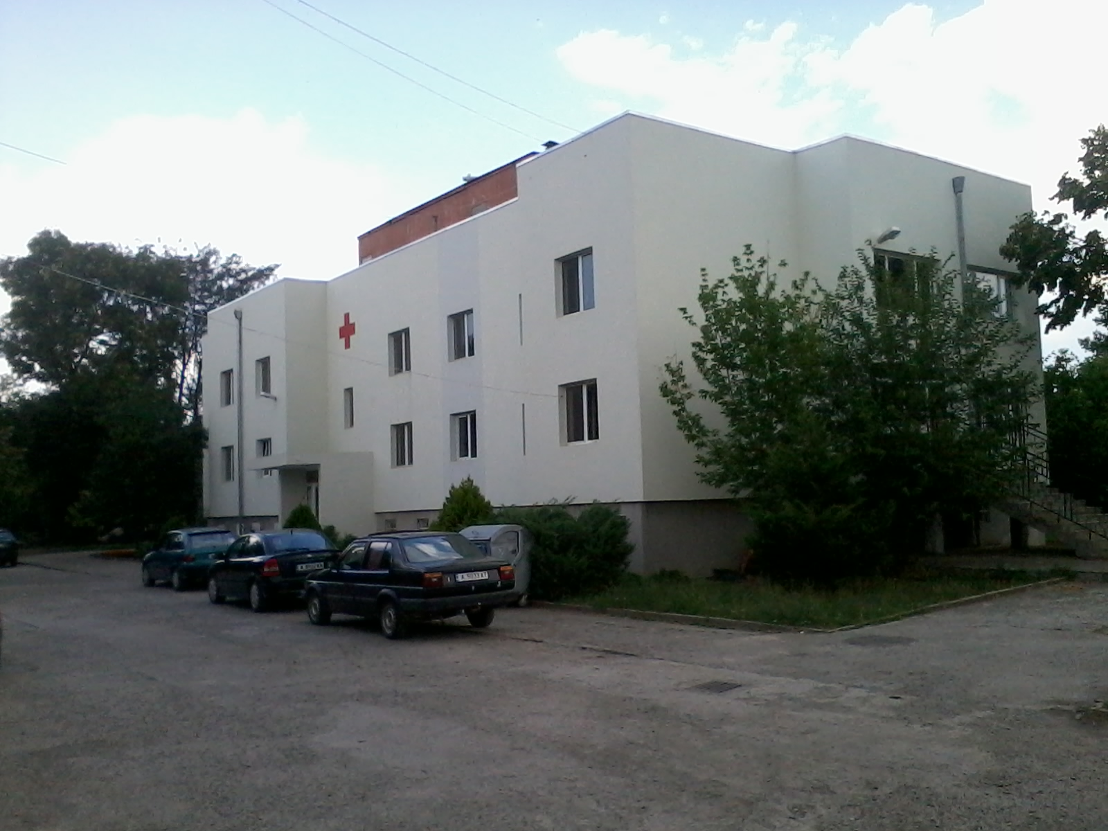 Поликлината в гр.Камено